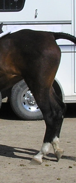 A "jumper's bump," a horse conformation flaw that is injury-caused but linked to a long back